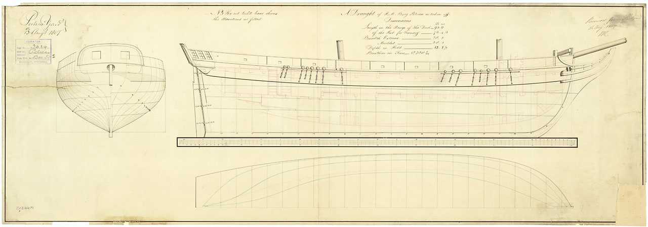 Pelican (captured 1806) Scale: 1:48. Plan showing the body plan with stern board outline, sheer lines with inboard detail, and longitudinal half-breadth for Pelican (captured 1806), a captured French Brig, as taken off. The dotted red lines illustrate her as fitted as an 18-gun Brig Sloop at Portsmouth Dockyard. The plan was received in the Navy Office by William Rule on 14 August 1807. PELICAN 1806